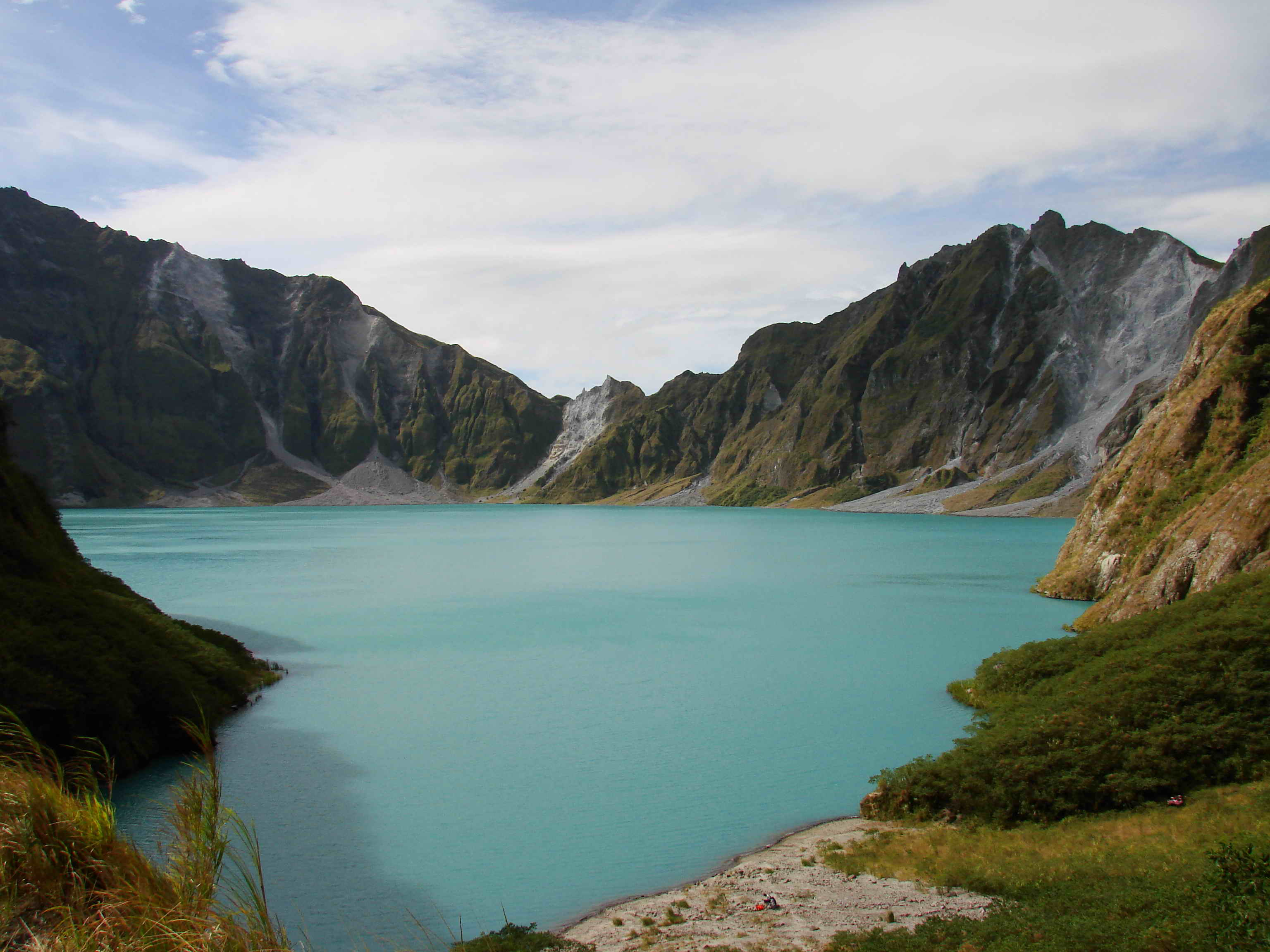 View from scenic lookout, early a.m.